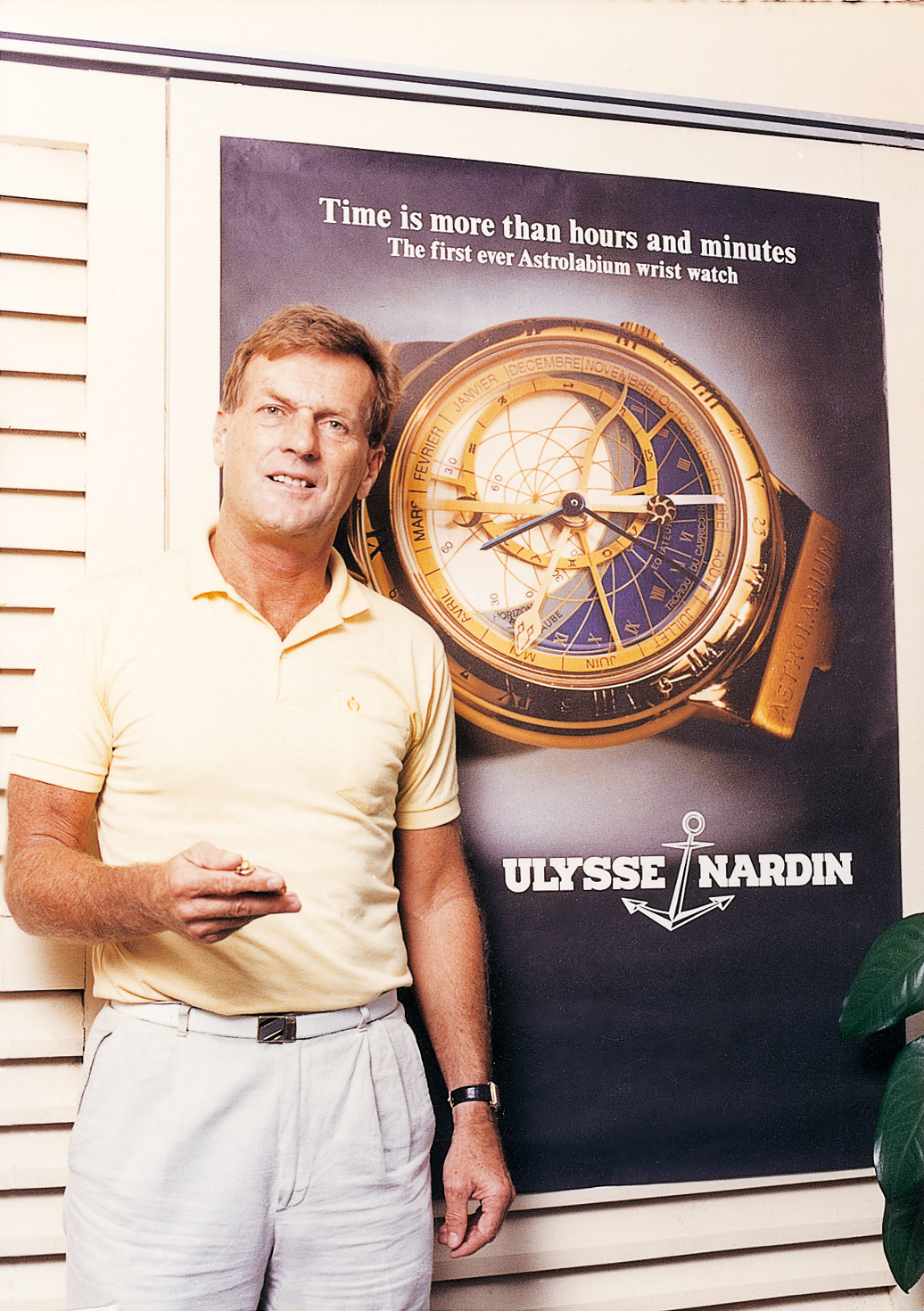 RWS in front of the Astrolabium ad.